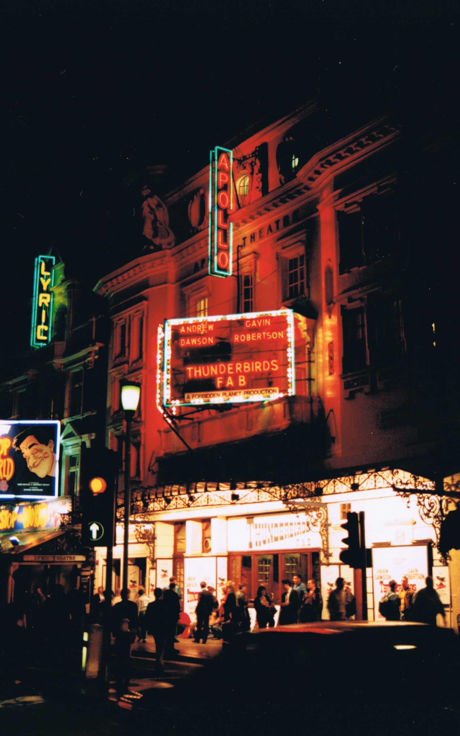 Thunderbirds FAB Apollo theater marqee from 1989, live show based on television series.